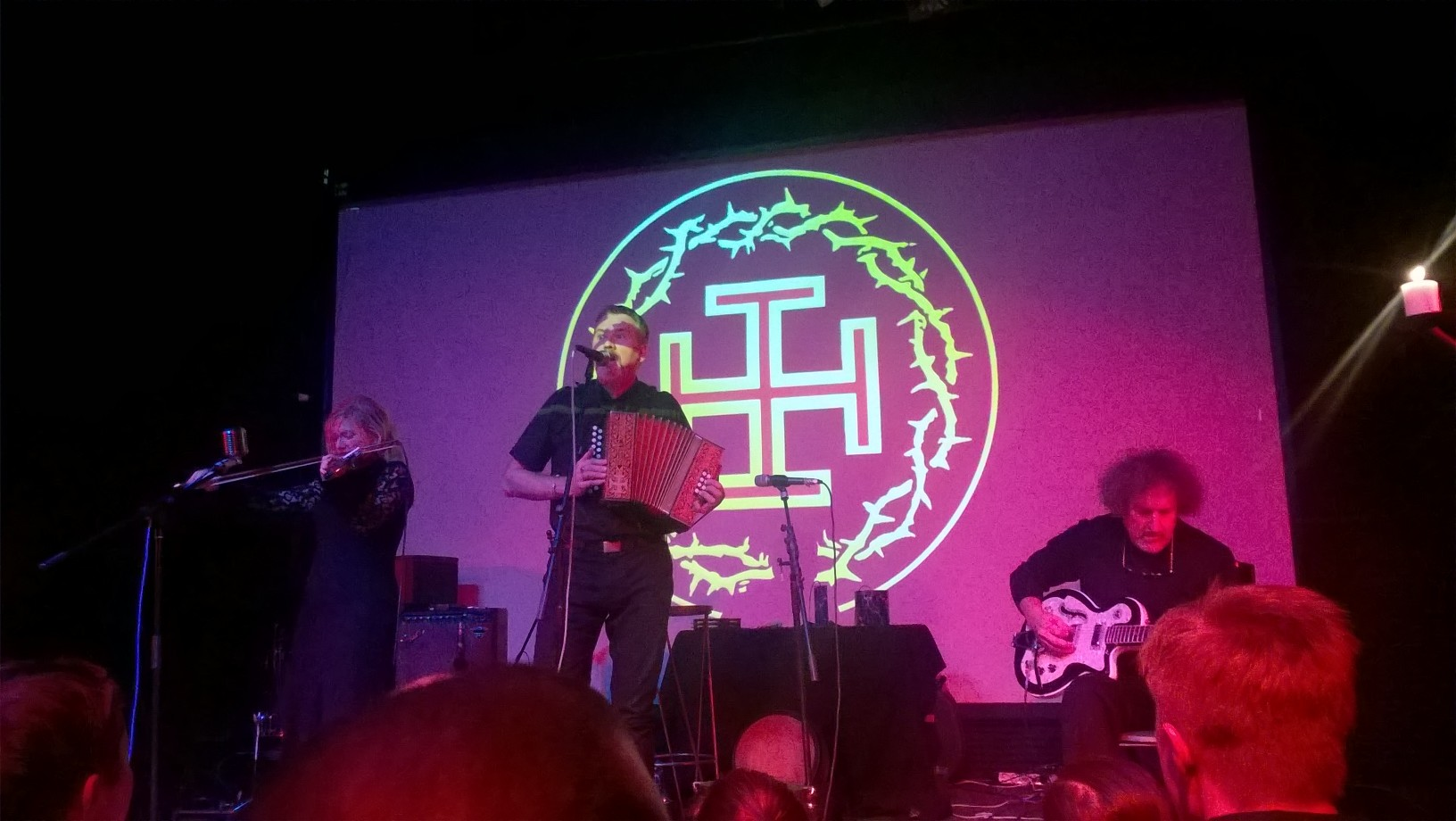 Neofolk band Blood Axis live in Moscow, 2016.